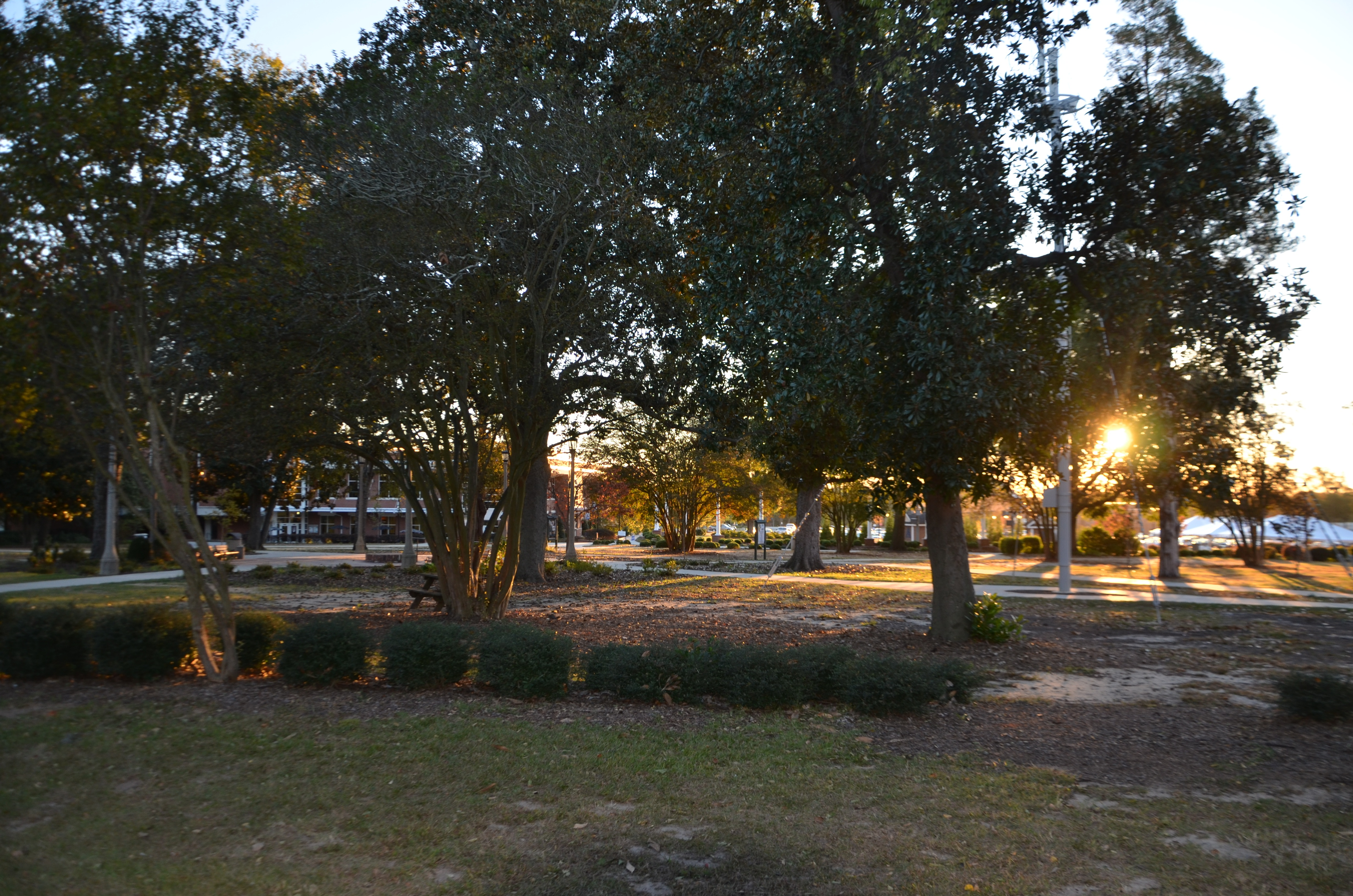 Photo taken in the morning looking over part of Georgia Regents University's Summerville campus.